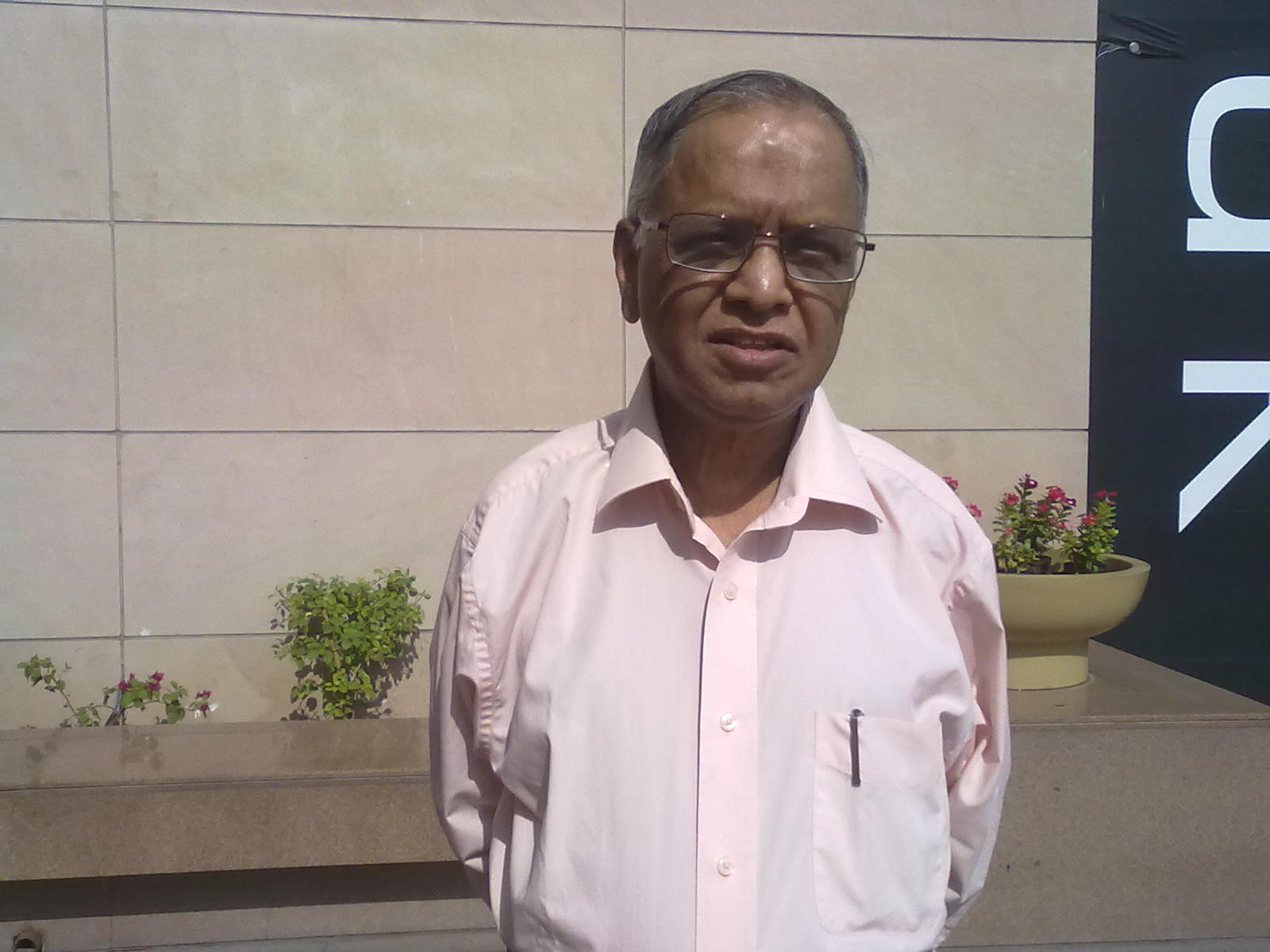 N R Narayana Murthy infront of a Movie Theater in Ahmedabad on April-2015.